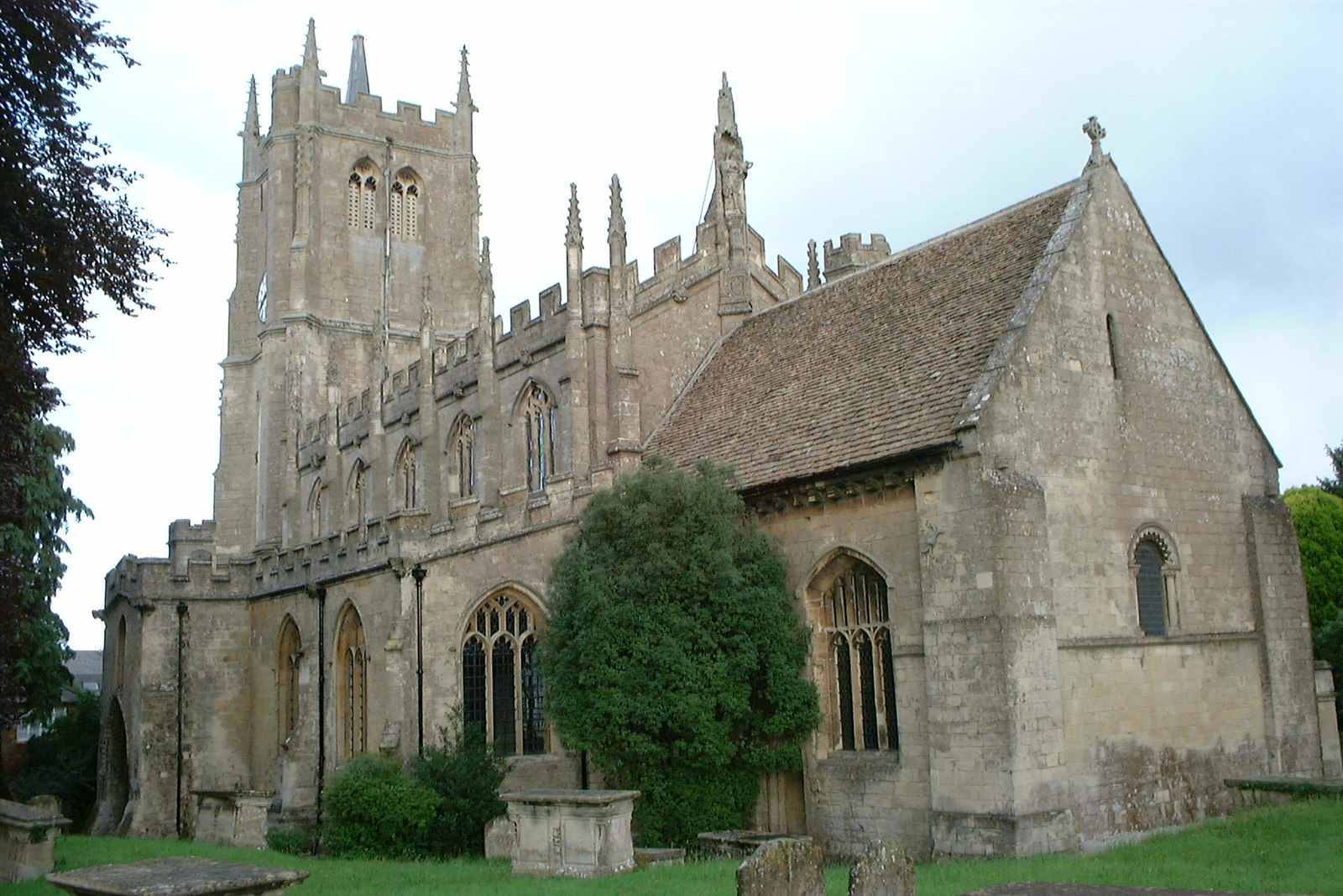 St Mary's parish church, Devizes, Wiltshire, seen from the east